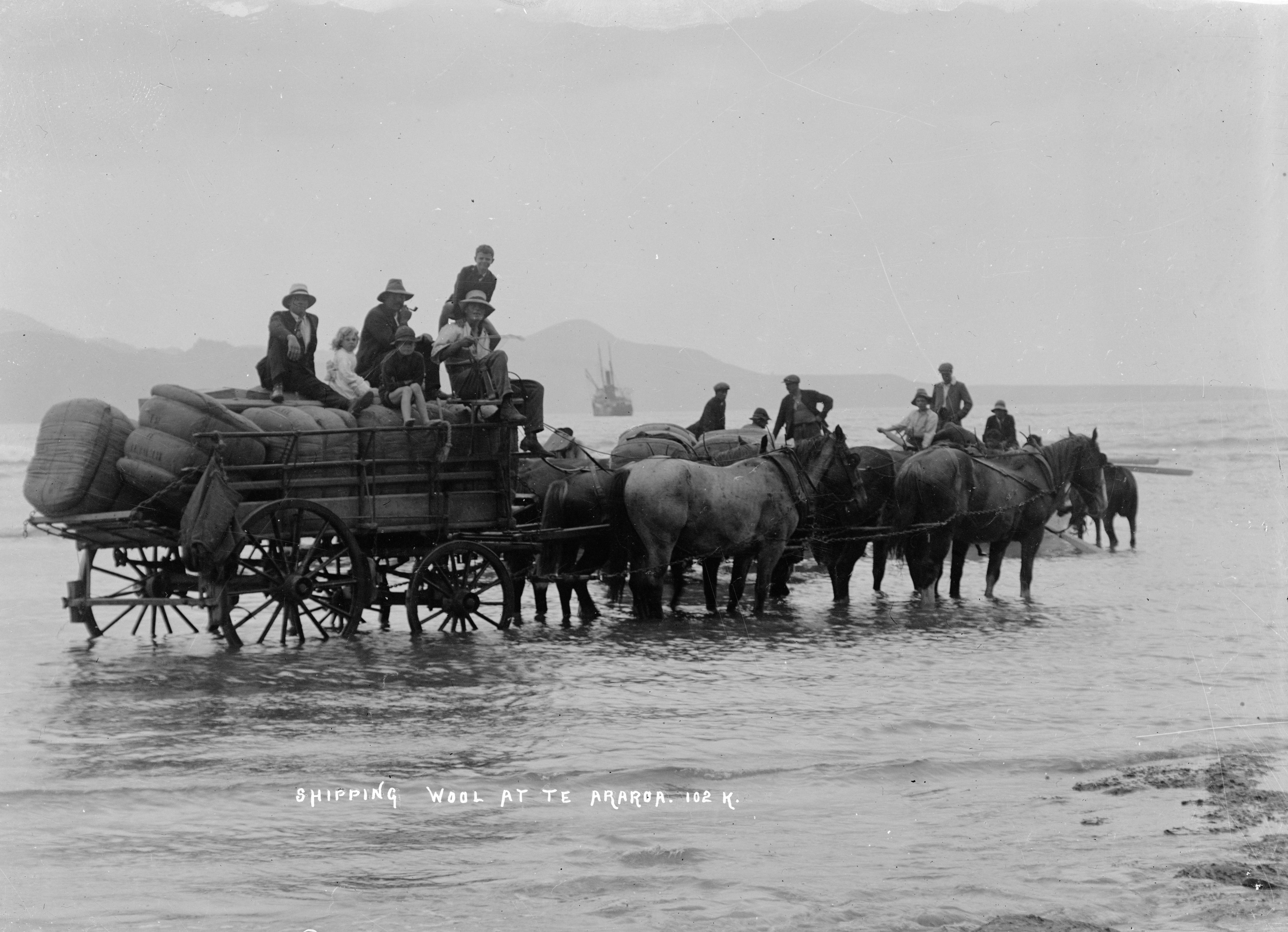 View of row boats being loaded with bales of wool for transfer to the ship waiting off-shore in the distance. The wool bales have been transported to the beach on a waggon drawn by a team of four horses. Men and children are sitting on top of the bales. Photograph taken by William A Price in the 1920s. Inscriptions: Inscribed - Photographer's title on negative -bottom left: Shipping wool at Te Araroa. 102K. Quantity: 1 b&w original negative(s). Physical Description: Gelatin dry plate negative 4.75 x 6.5 inches Shipping wool at Te Araroa, East Coast. Price, William Archer, 1866-1948 :Collection of post card negatives. Ref: 1/2-001870-G. Alexander Turnbull Library, Wellington, New Zealand.